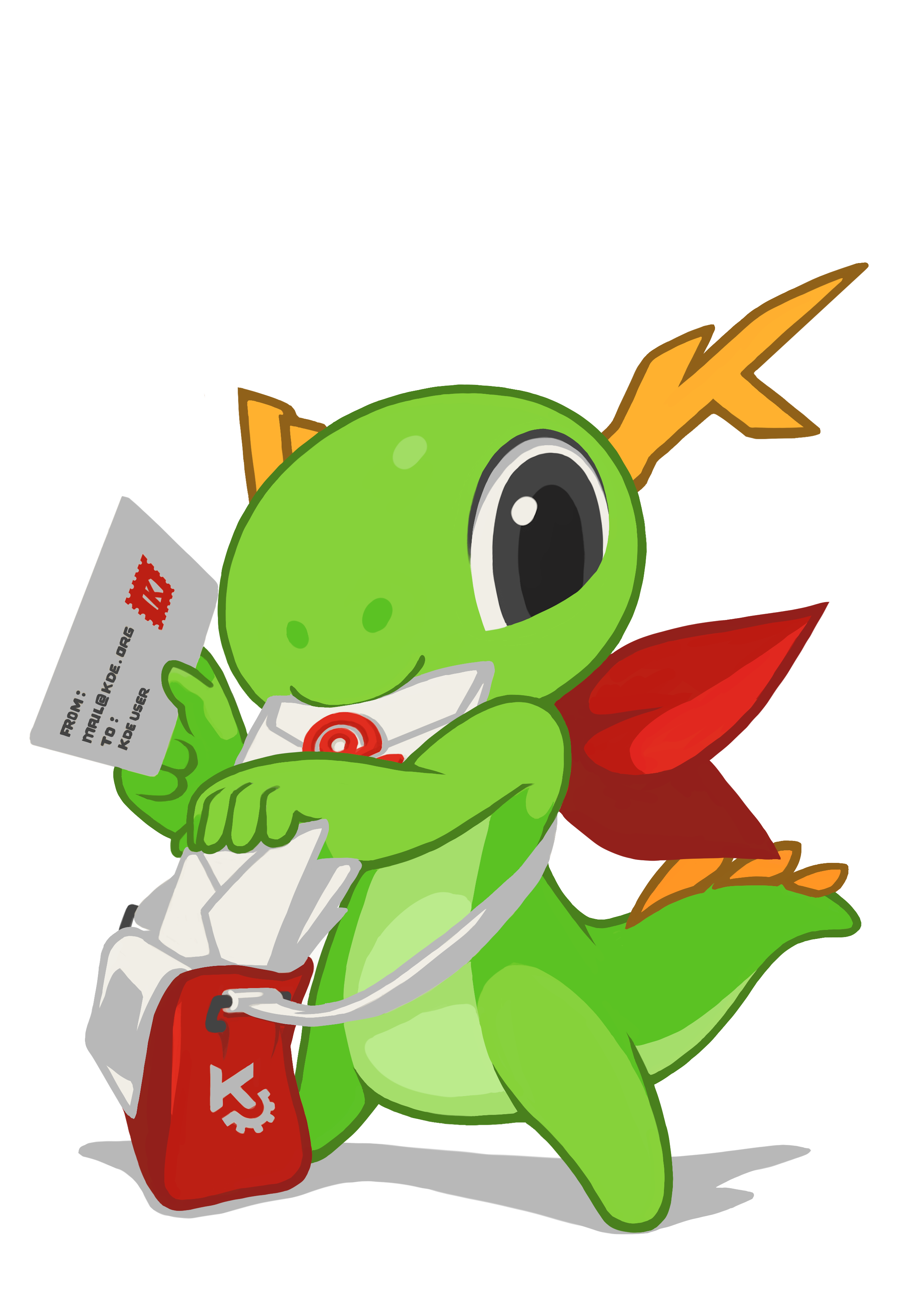 KDE mascot Konqi for KDE maillist.